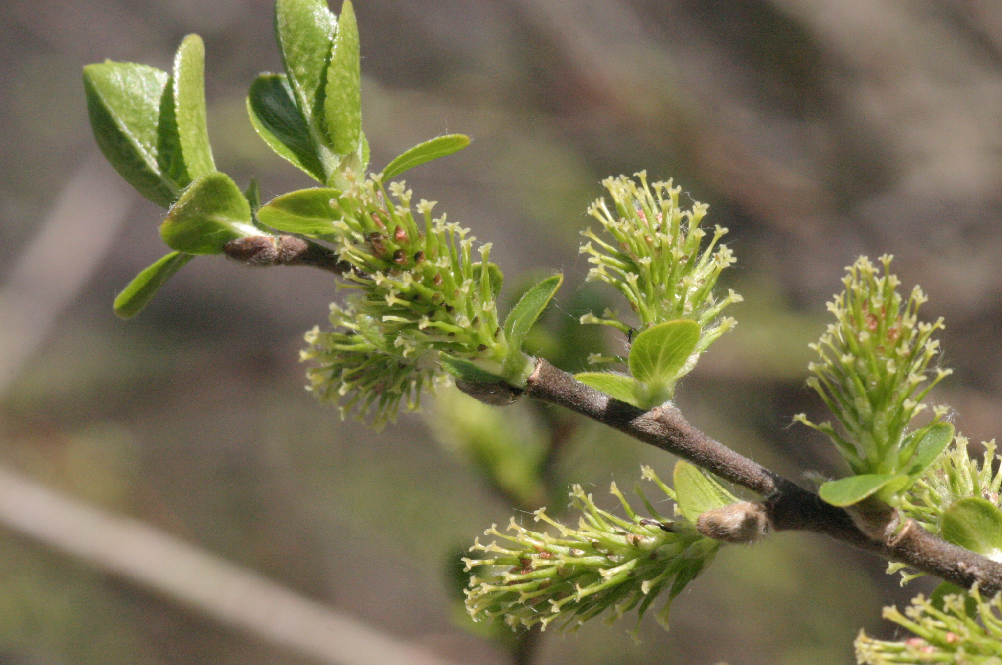 Salix myrsinifolia